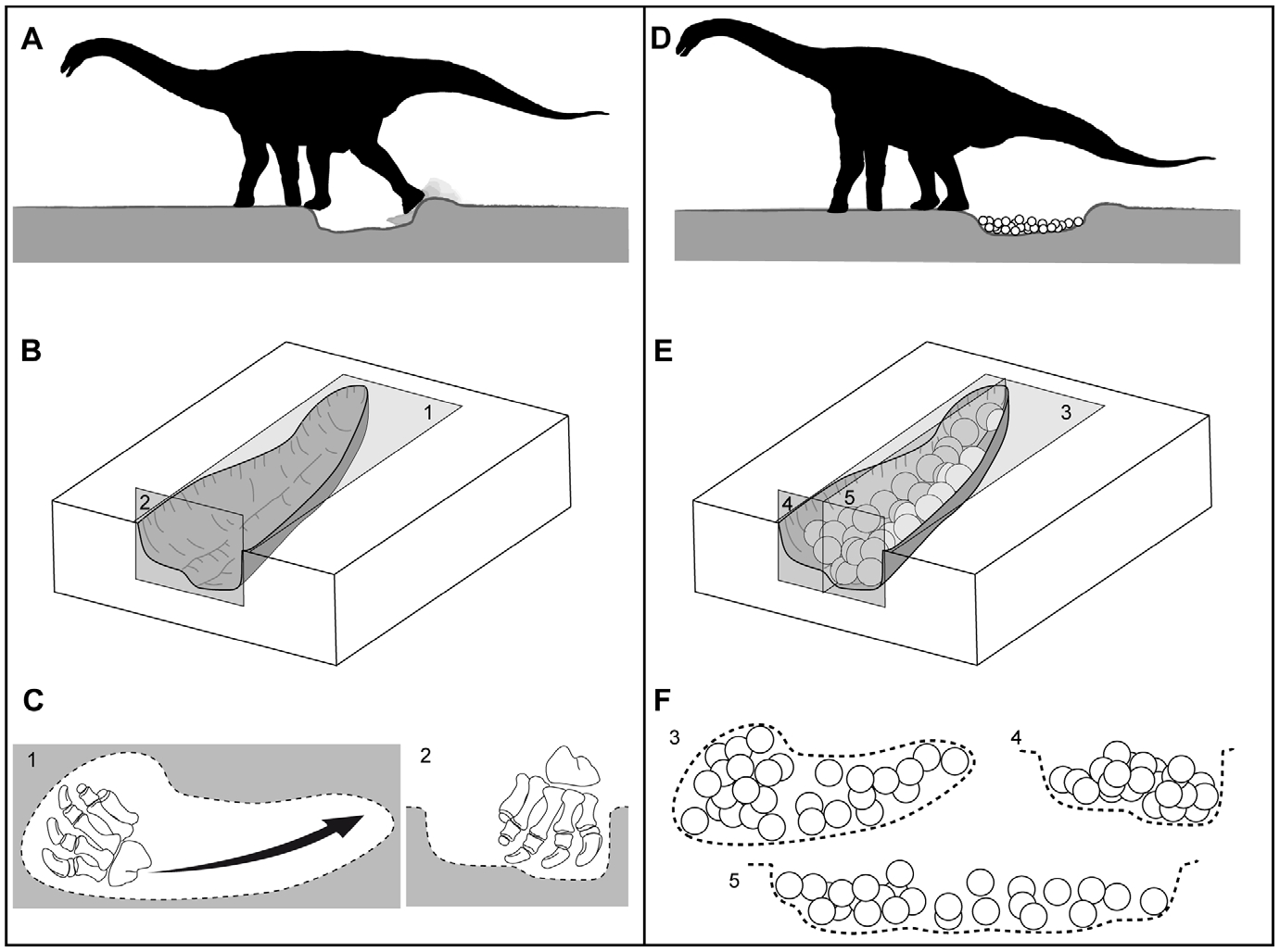 Interpretation of next excavation and egg laying by a titanosaur Page 11 of: Vila, Bernat (2010). "3-D Modelling of Megaloolithid Clutches: Insights about Nest Construction and Dinosaur Behaviour". PLoS One 5: 1–13. Retrieved on 2018-05-24.